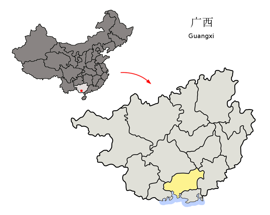 Location of Qinzhou Prefecture (yellow) within Guangxi Autonomous Region of China Map drawn in november 2007 using various sources, mainly : Guangxi Autonomous Region administrative regions GIS data: 1:1M, County level, 1990 Guangxi Counties map from